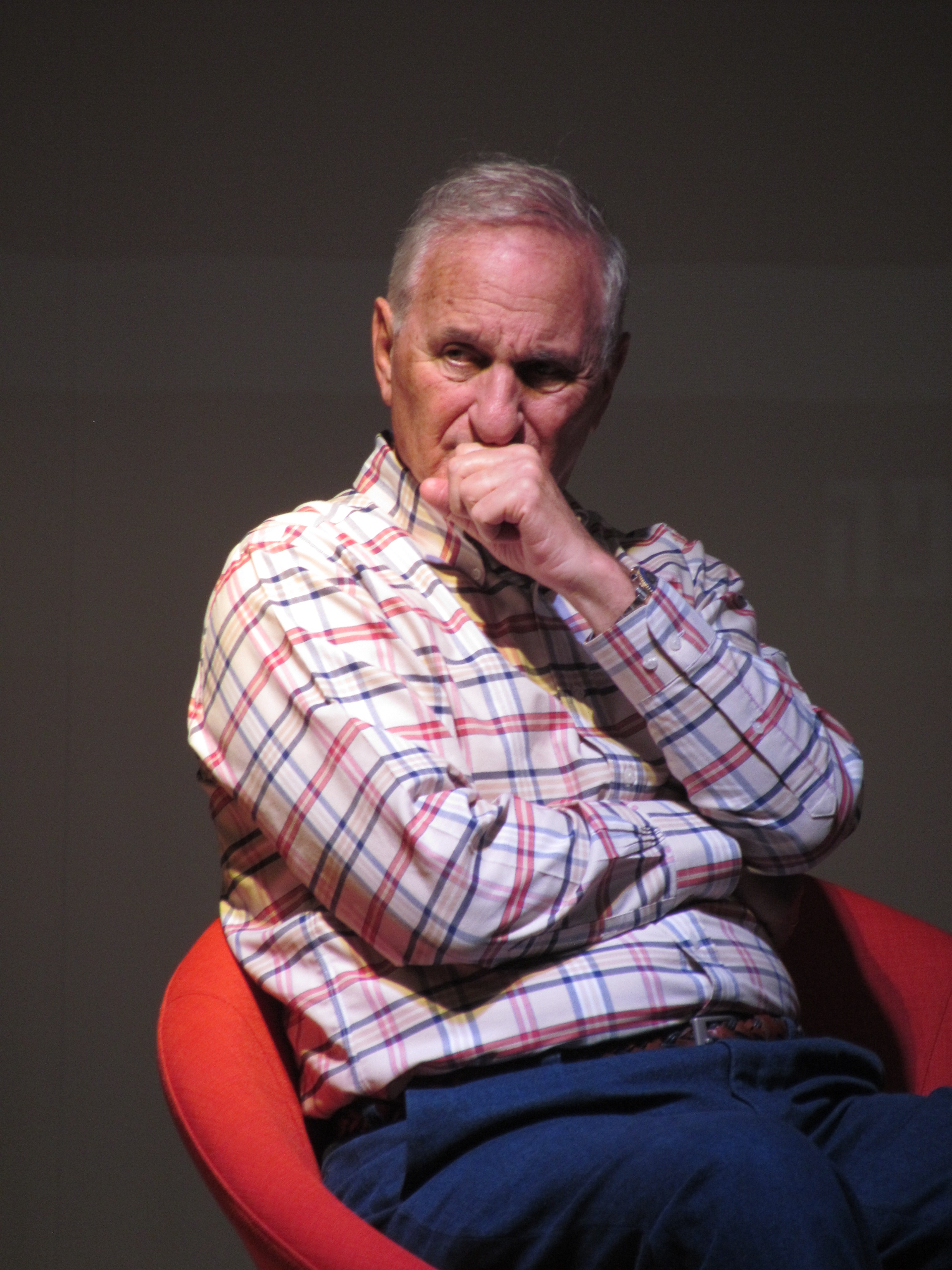 Giora Romm